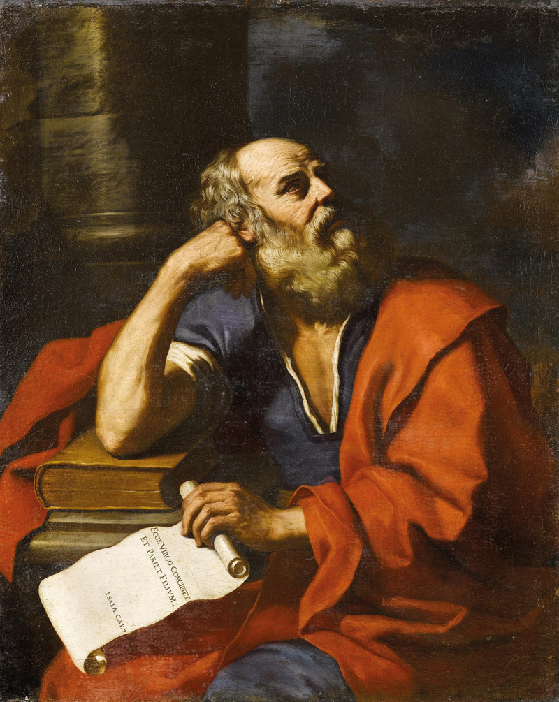 Il Profeta Isaia (Collezione M – collezione privata)